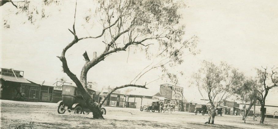 Title: [Storefronts, Llano, Texas] Date: ca. 1907-1918 Part Of: Collection of real photographic postcards of Texas Place: Llano, Llano County, Texas Physical Description: 1 photographic print (postcard) File: ag2005_0001_01_183_c_llano_opt.jpg Rights: Please cite DeGolyer Library, Southern Methodist University when using this file. A high-resolution version of this file may be obtained for a fee. For details see the web page. For other information, . For more information, View Texas: Photographs, Manuscripts, and Imprints